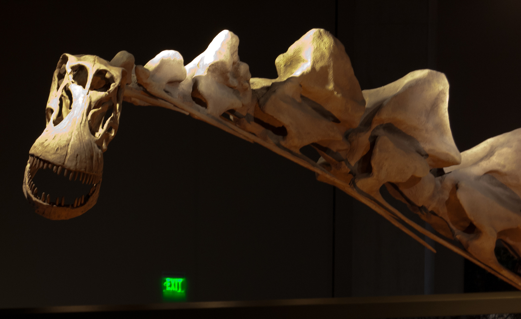 Thanks to a wonderful sister-in-law, we got an early peek at the new science museum in Dallas, TX. They have done a wonderful job on the museum and we look forward to returning!